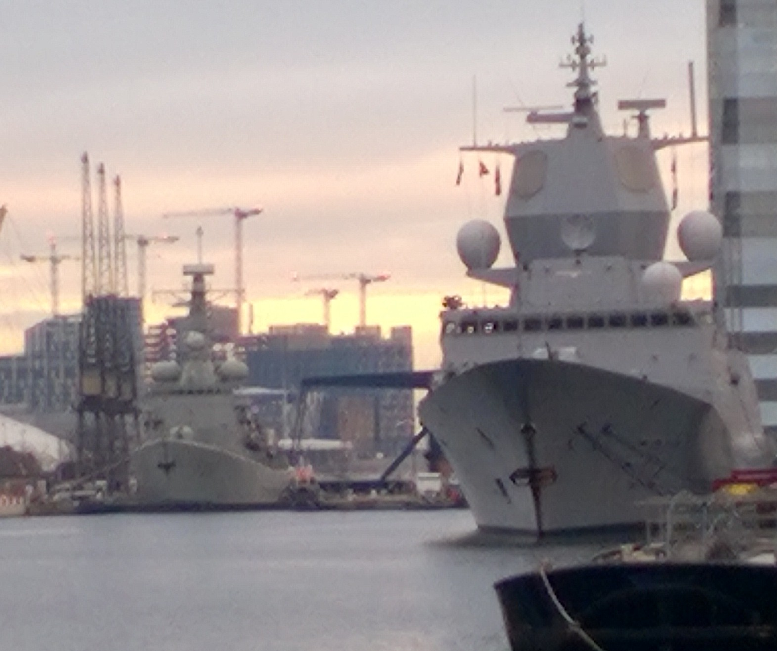 Portuguese Navy frigate NRP D. Francisco de Almeida and Royal Norwegian Navy frigate HNoMS Otto Sverdrup moored at South Quay during a visit to London in December 2017.